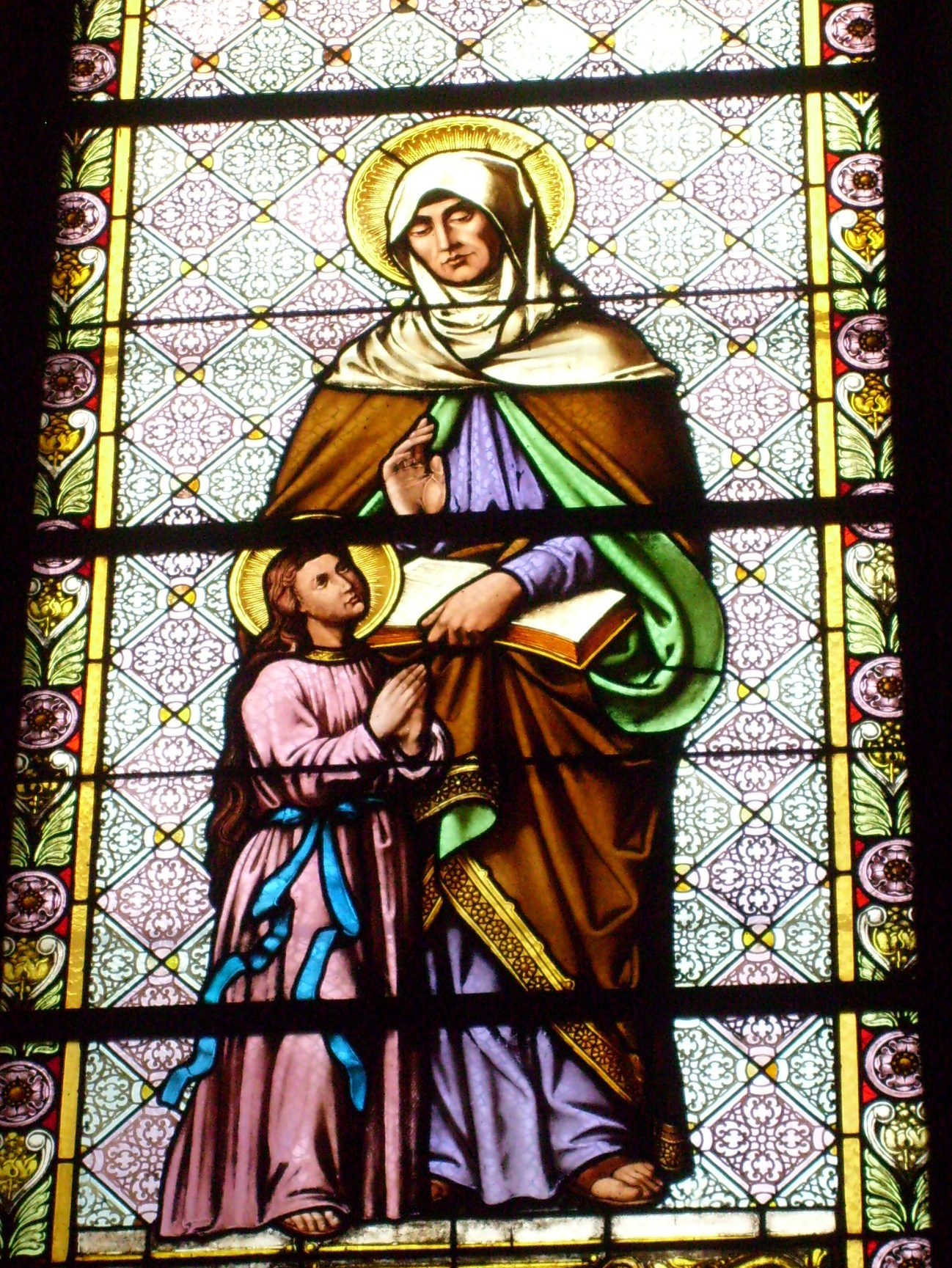 Stained glass window in the former Minorit Church of Cluj (present day Transfiguration Cathedral).